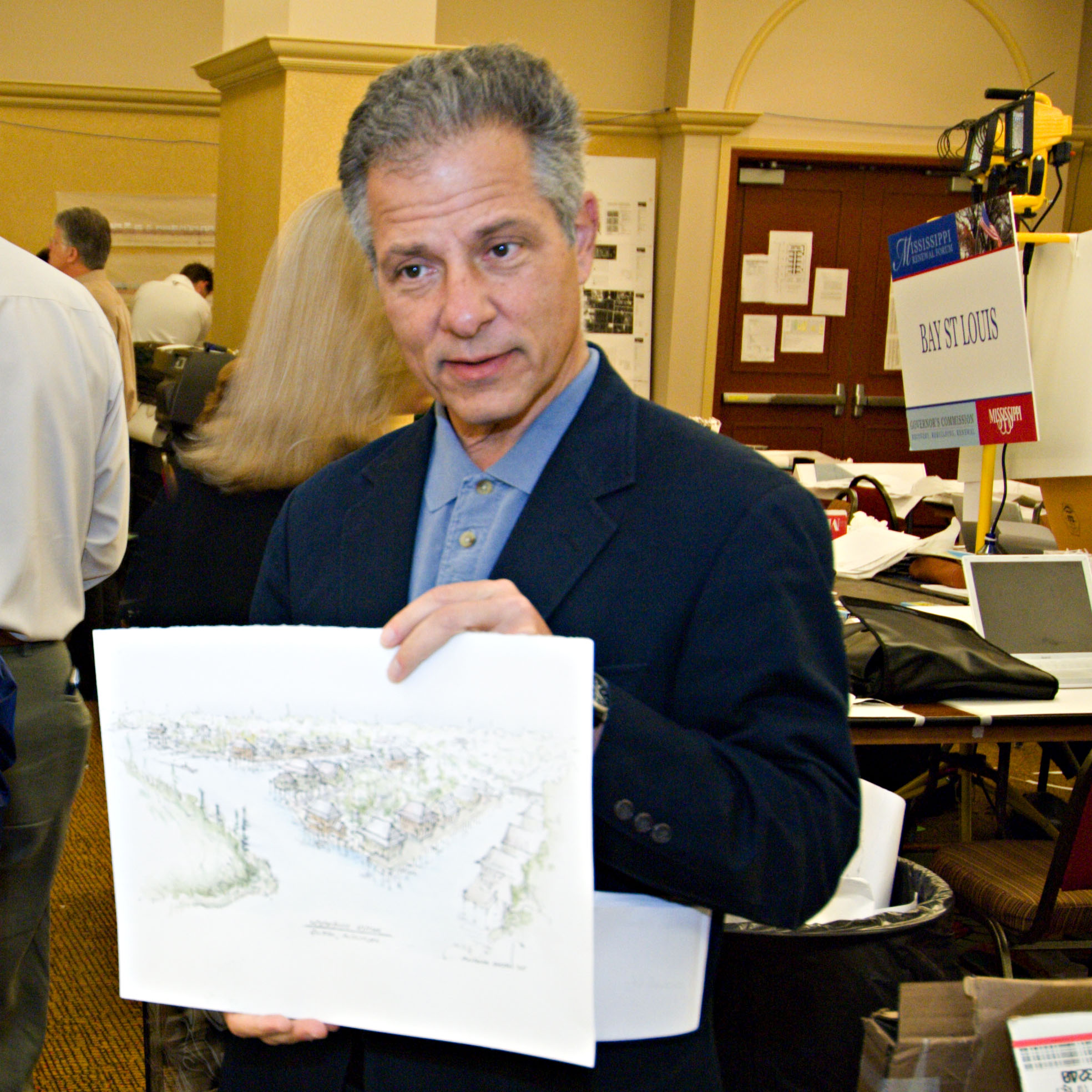 Architect and urban designer Andrés Duany at a charrette in Biloxi in 2005.